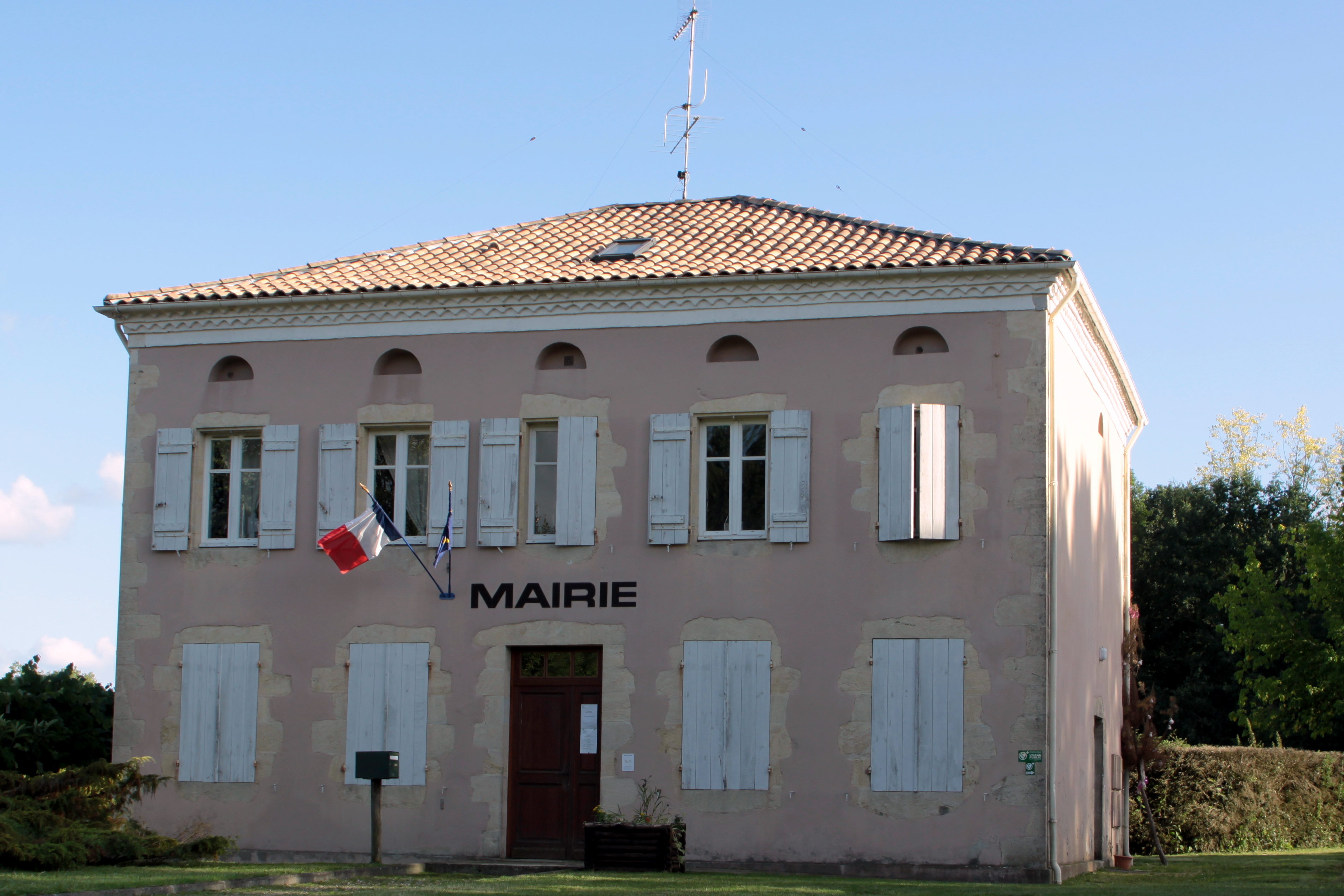 Townhall in Mailléres (Landes)